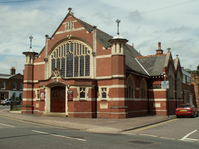 Hertford Baptist Church It was built in 1906-7 and stands at Port Hill, which is the B158.